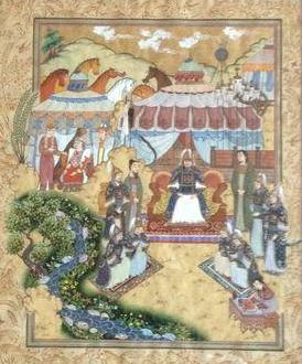 Great mongolian Emperor Genghis Khan, his four sons: Jochi, Chagatai, Ögedei, Tolui, his generals: Subutai and Jebe, the chief adviser Yelü Chucai, his wife Börte Üjin and servants